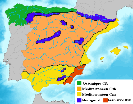 Climatic map of Spain according to Köppen